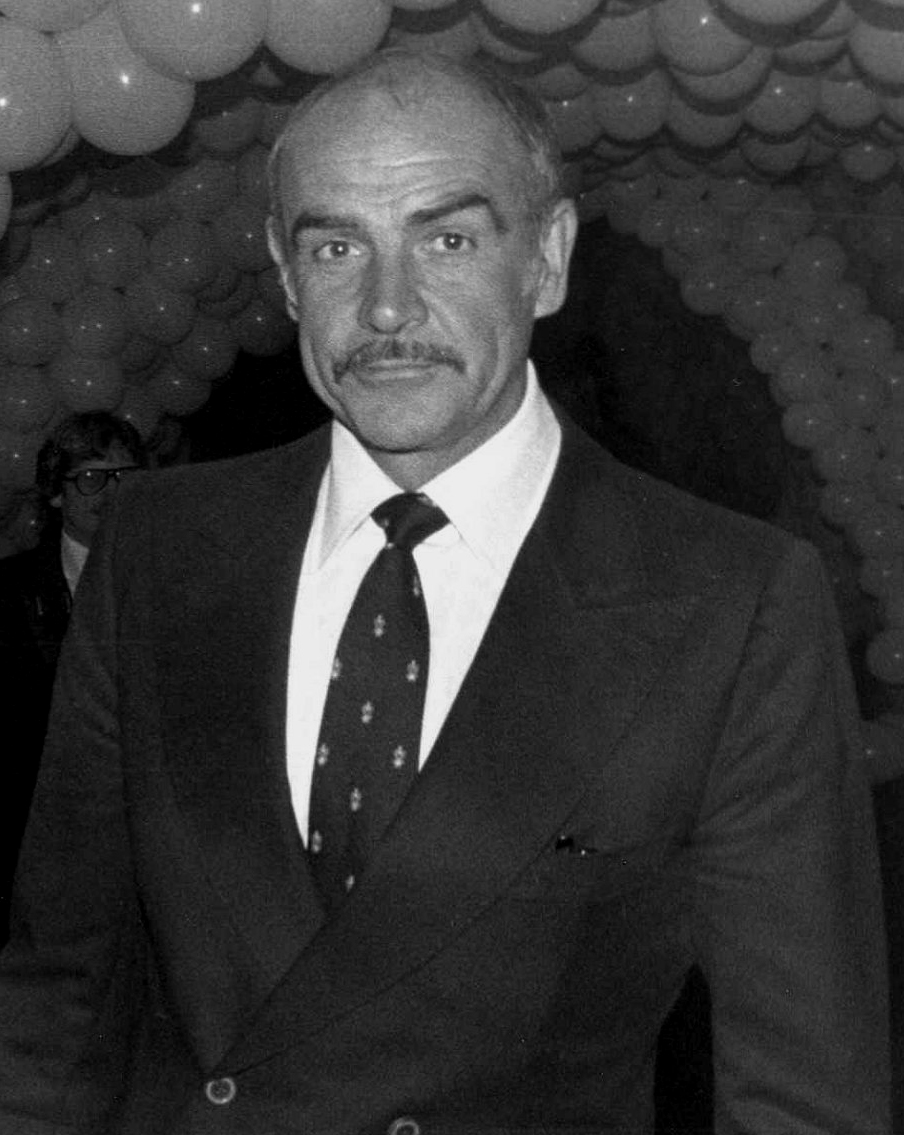 Sean Connery at premiere of Seems Like Old Times.